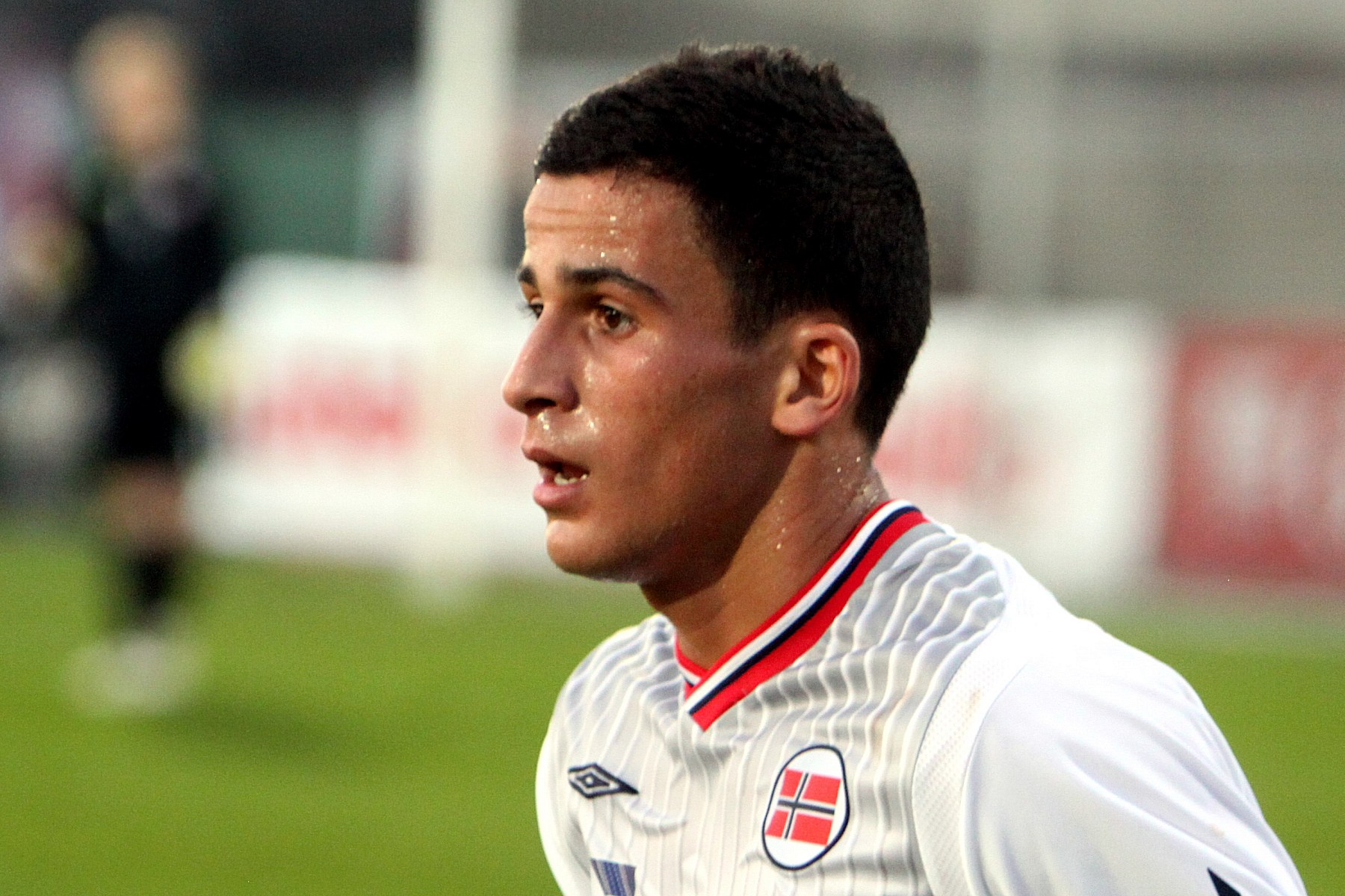 Omar Elabdellaoui (Manchester City) in the Norway national under-21 football team, 2011-03-29